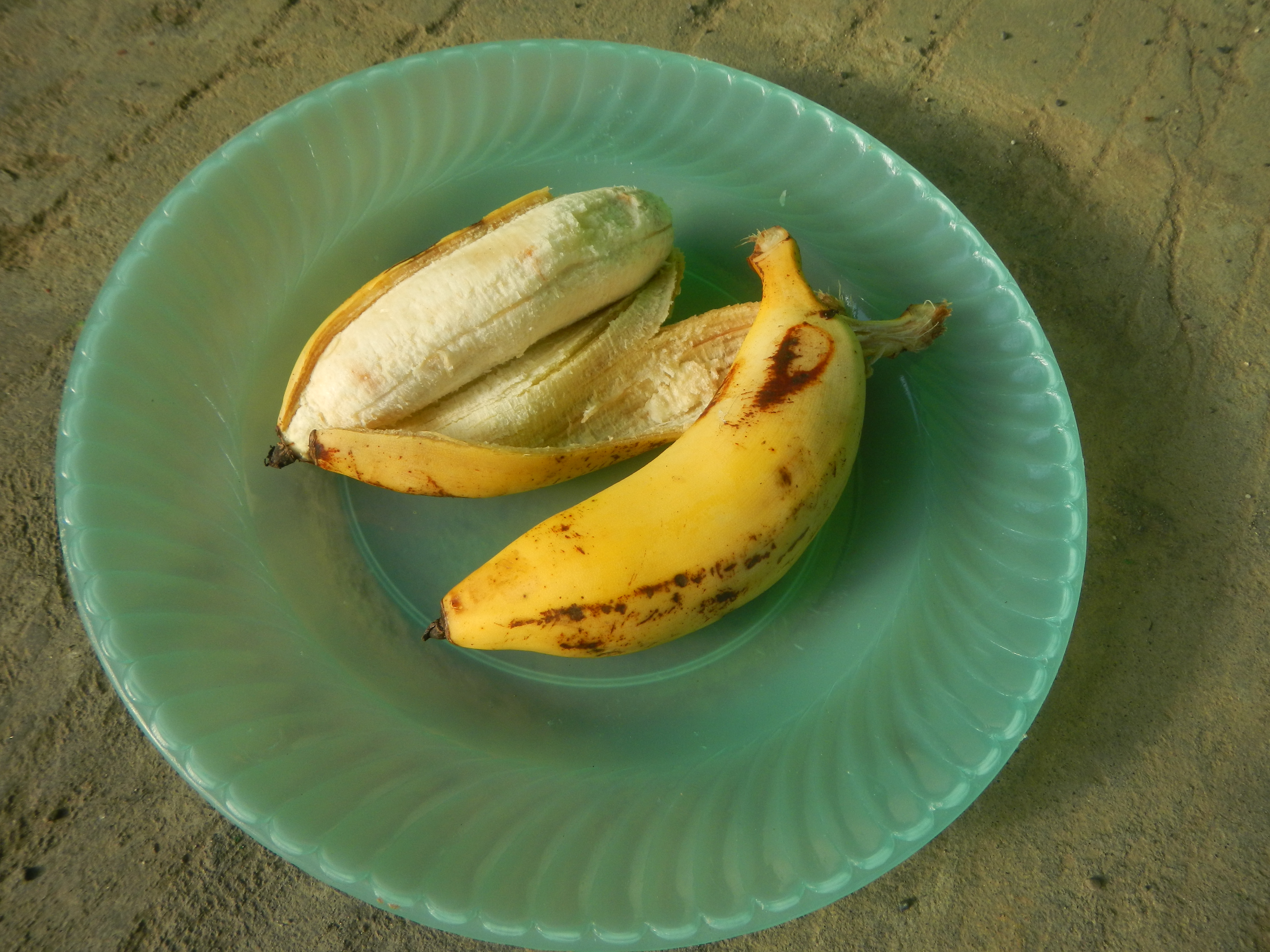 Convolulaceae Kamote Ipomoea batatas (L.) Lam. Sweet potato List of sweet potato cultivars Latundan banana Okra fruits textures Kamote Halaya ube Bibingkang kanin Mochi photos taken in Barangay Concepcion 14°57'7"N 120°53'39"E beside Poblacion 14°57'17"N 120°54'2"E Baliuag, Bulacan, Bulacan province (Note: Judge Florentino Floro, the owner, to repeat, Donor Florentino Floro of all these photos hereby donate gratuitously, freely and unconditionally all these photos to and for Wikimedia Commons, exclusively, for public use of the public domain, and again without any condition whatsoever).